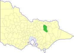 Location of the Shire of Oxley within Victoria.